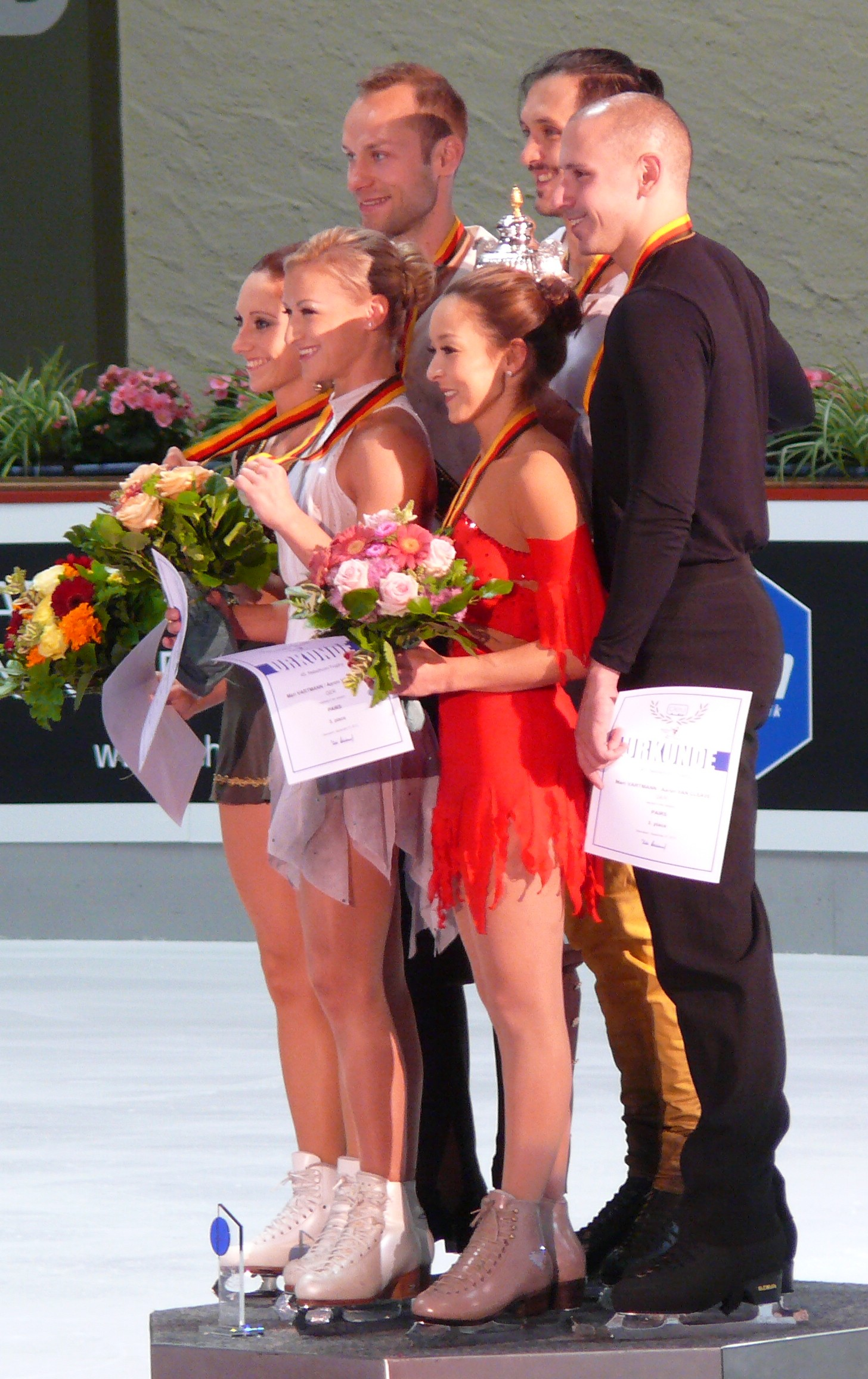 Victory ceremony pairs at the Nebelhorn Trophy 2013 in Oberstdorf / Bavaria / Germany.